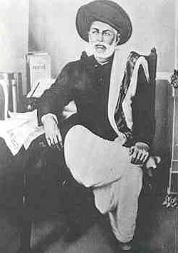 Mahatma Jyotiba Phule ,the important Social activist from Maharashtra, India.